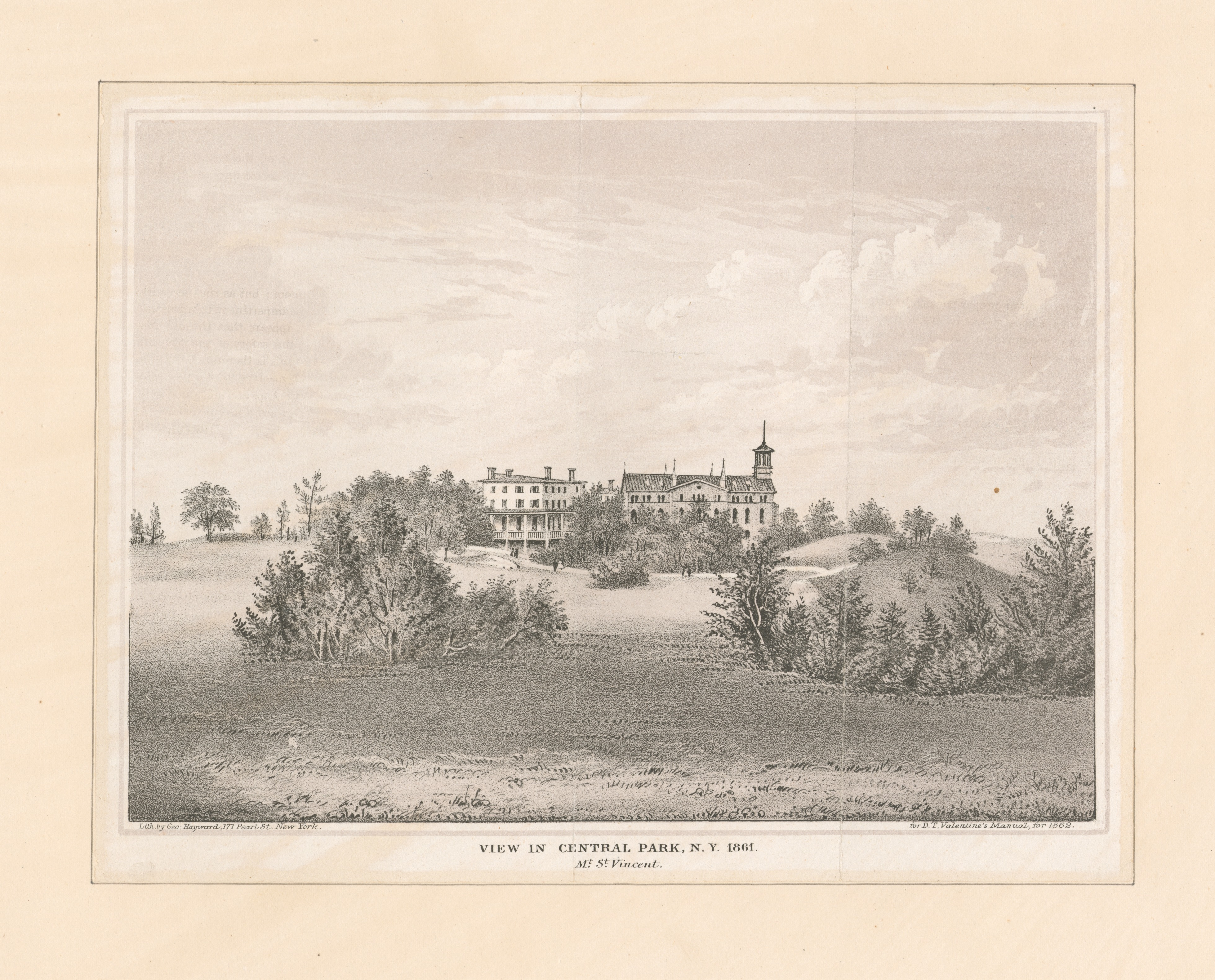 Title from Calendar of Emmet Collection. EM11693 Statement of responsibility : Lith. by Geo. Hayward